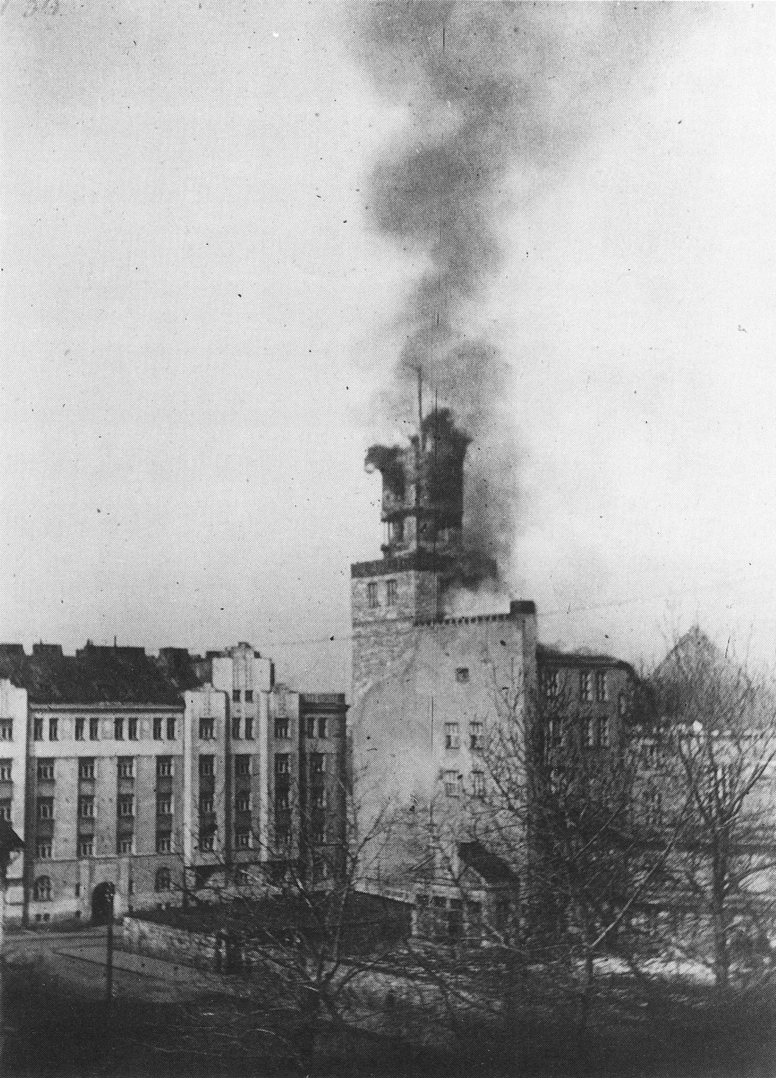 The Workers’ House in Helsinki — headquarters for the Red Guard — is burning, as the Germans and the White Guard is conquering the capital, which has been under red rule during the insurrection in 1918.